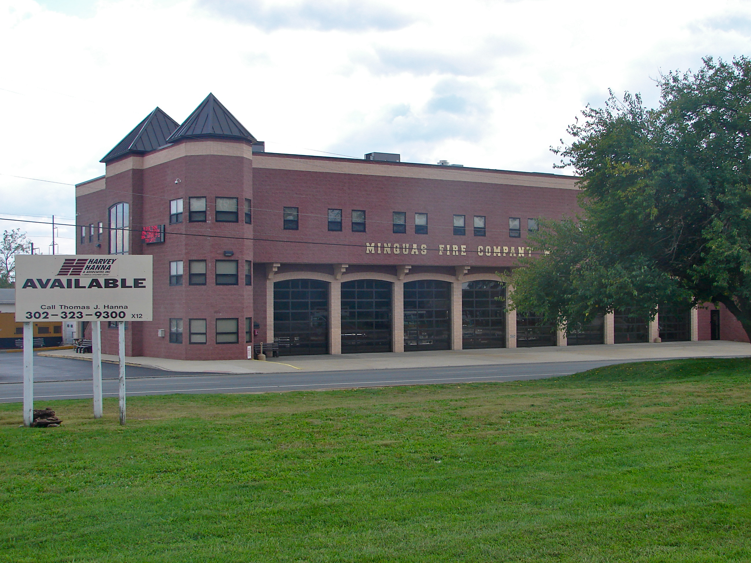 Minquas Fire Department in Newport, Delaware. The empty lot(s) in front of it (the green grass) are the former sites of two (2) current NRHP sites. Joseph Killgore House 107 N. James St. and Killgore Hall, 101 N. James St., both listed on July 14, 1993.